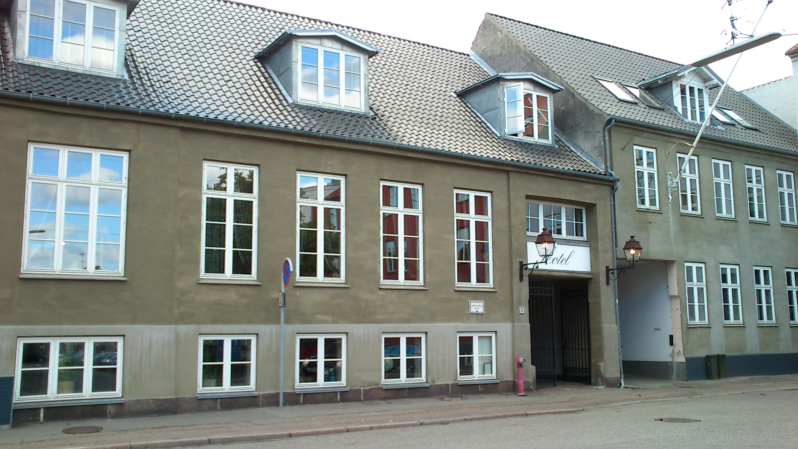 Hotel Villa Provence